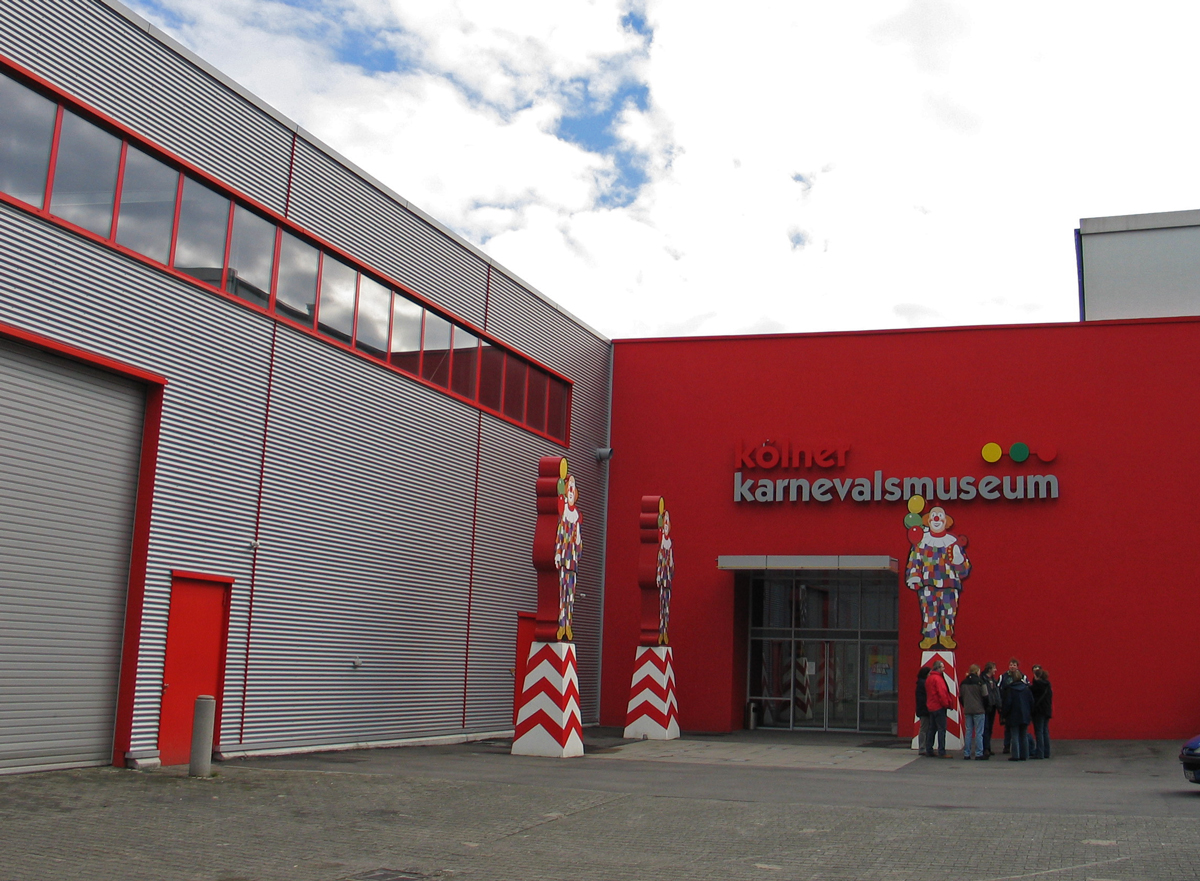 Museum of Karneval, Cologne, Germany